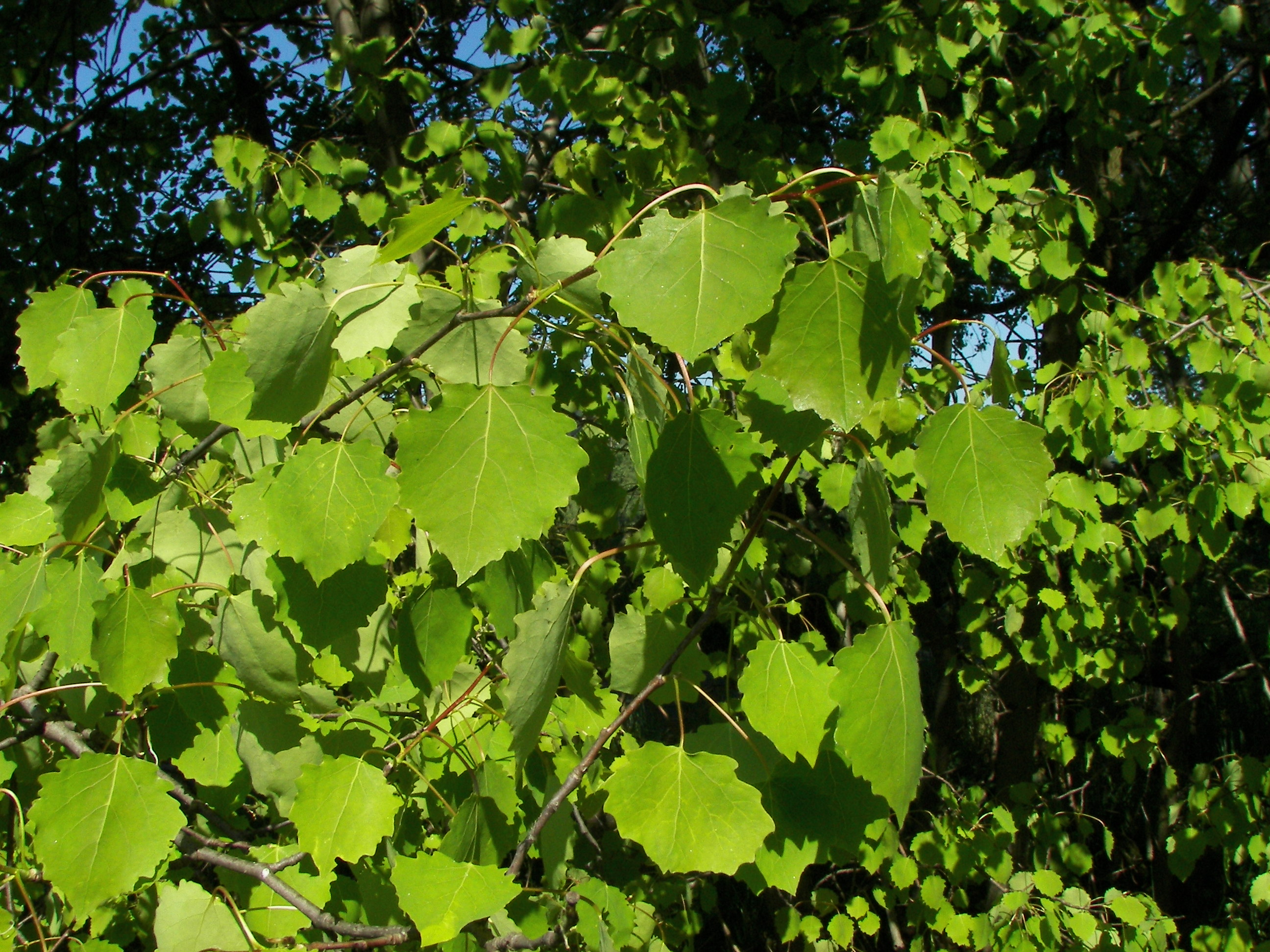 Aspen Leaves (Populus tremula) near Marburg, Hesse, Germany